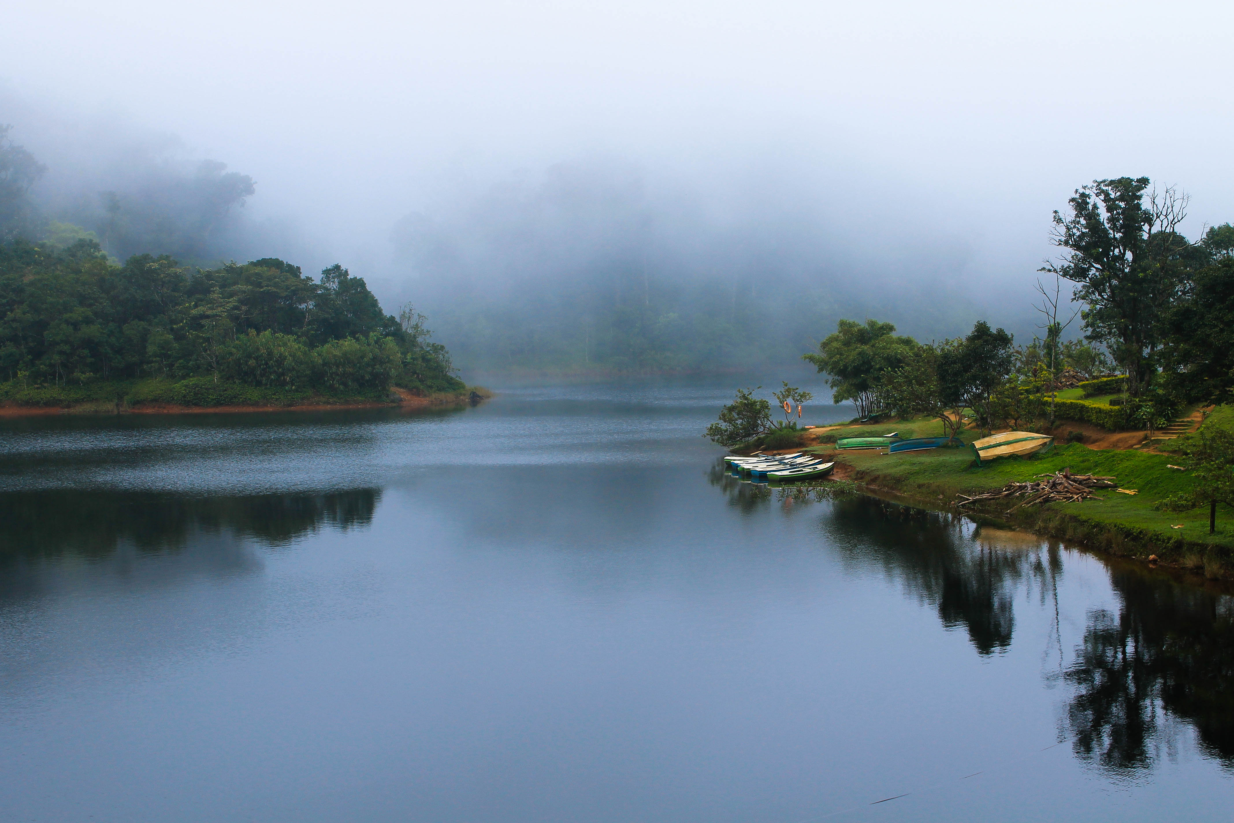 A quaint village amidst the Periyar wildlife sanctuary, Kerala